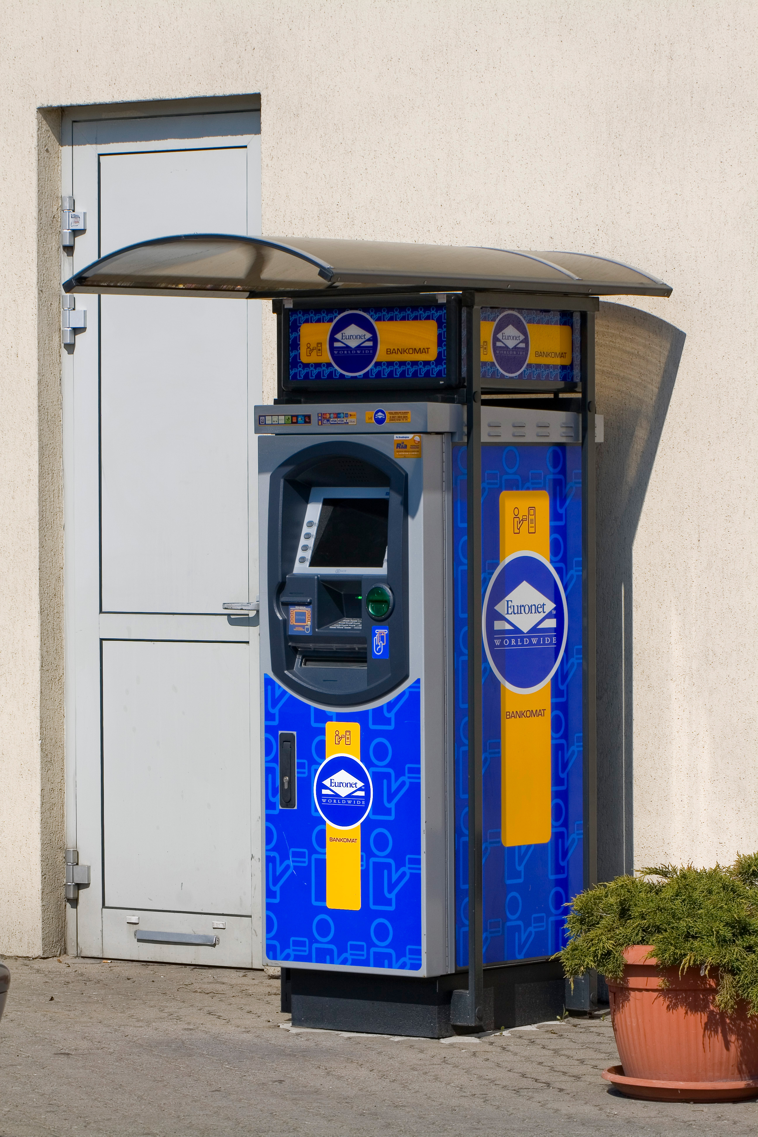 Automatic teller machine, Gniezno, Poland